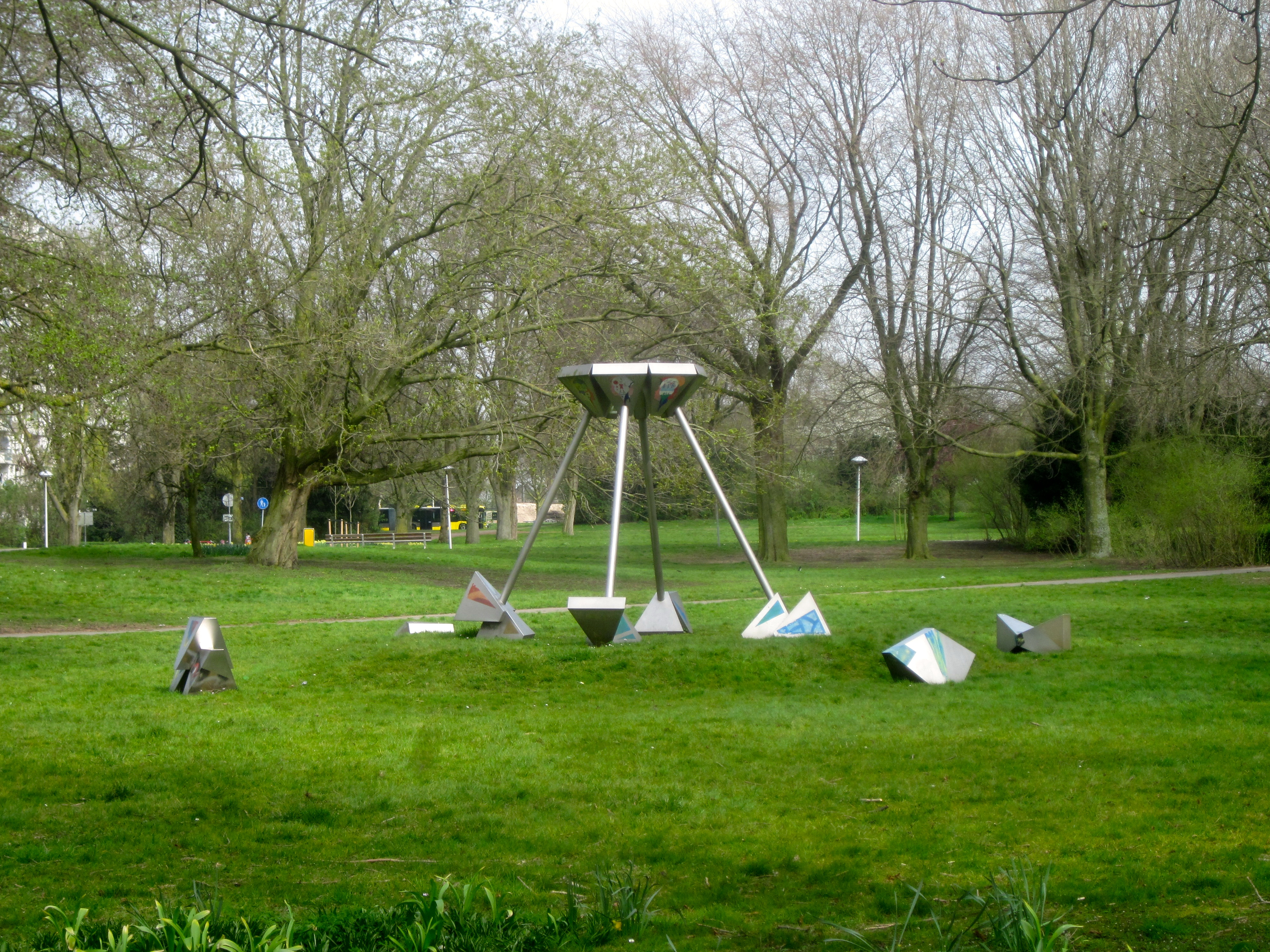 Sprankelplek Jos Spanbroek Park de Gagel Utrecht